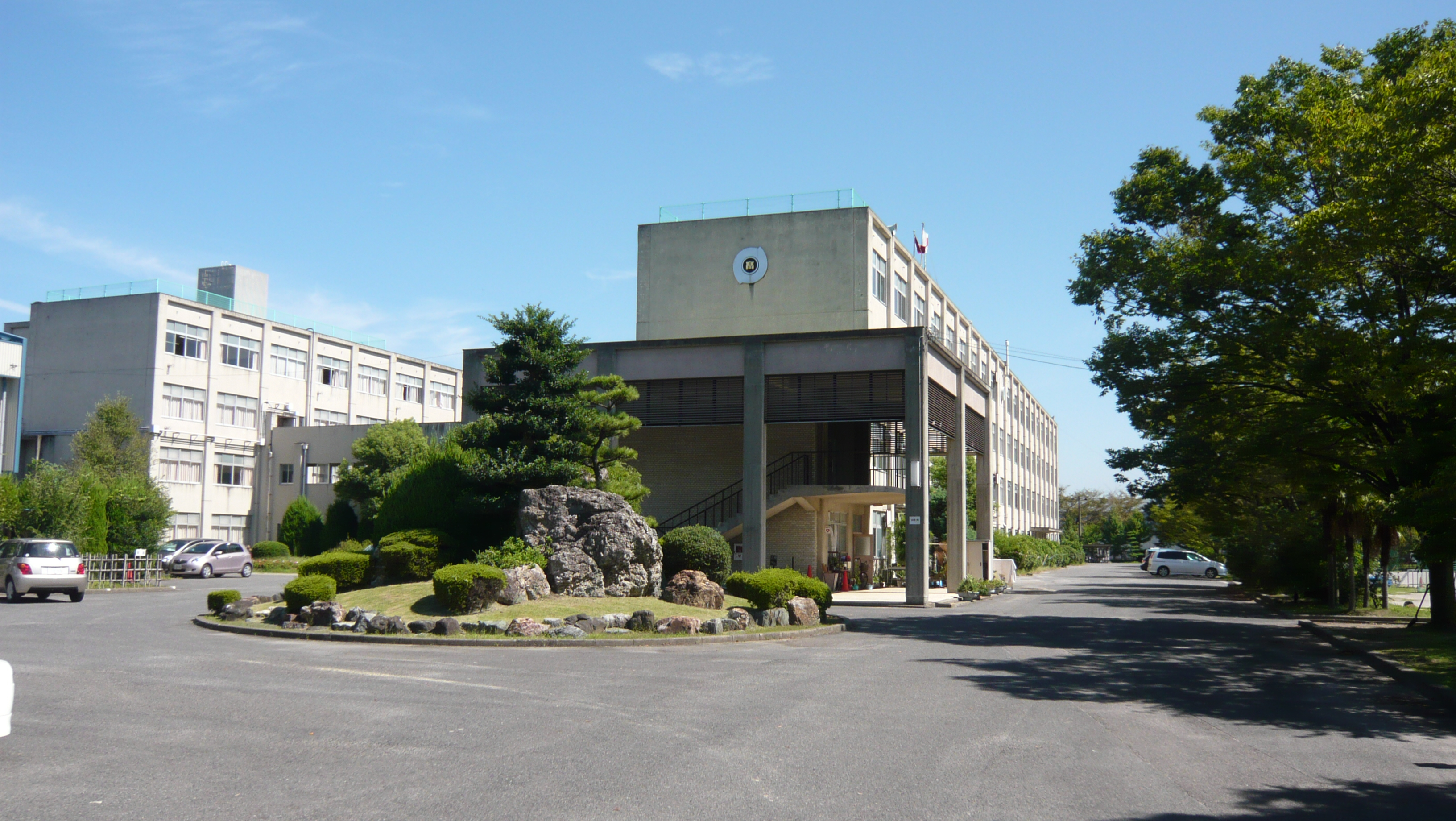 Niwa Senior High School in Ohguchi, Aichi